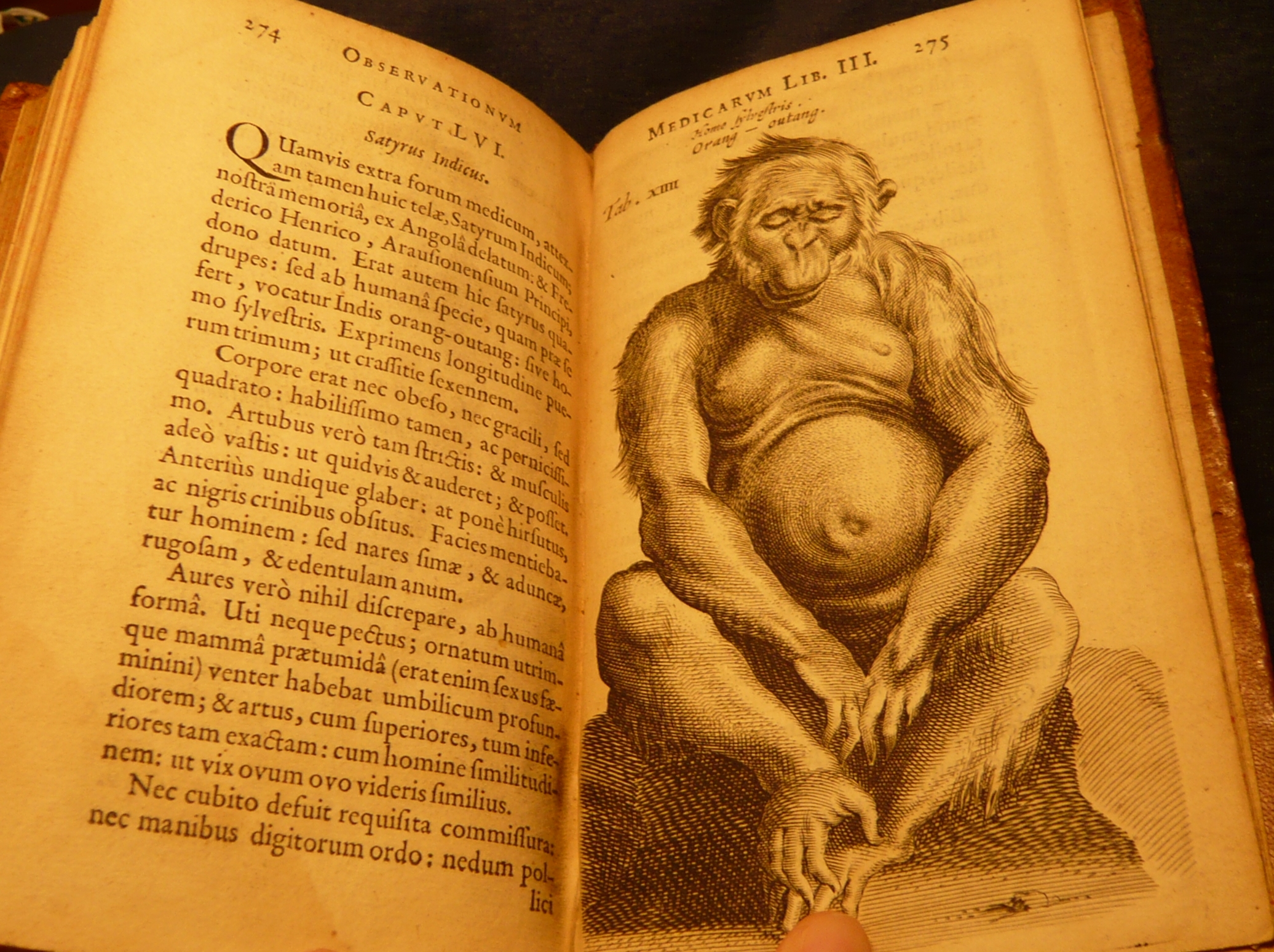 Nicolai Tulpii Amstelredamensis Observationes Medicae, 1641, Book III, 56th Observation. Most popular plate from Nicolaes Tulp's book, showing the earliest known western drawing of an orangutan.